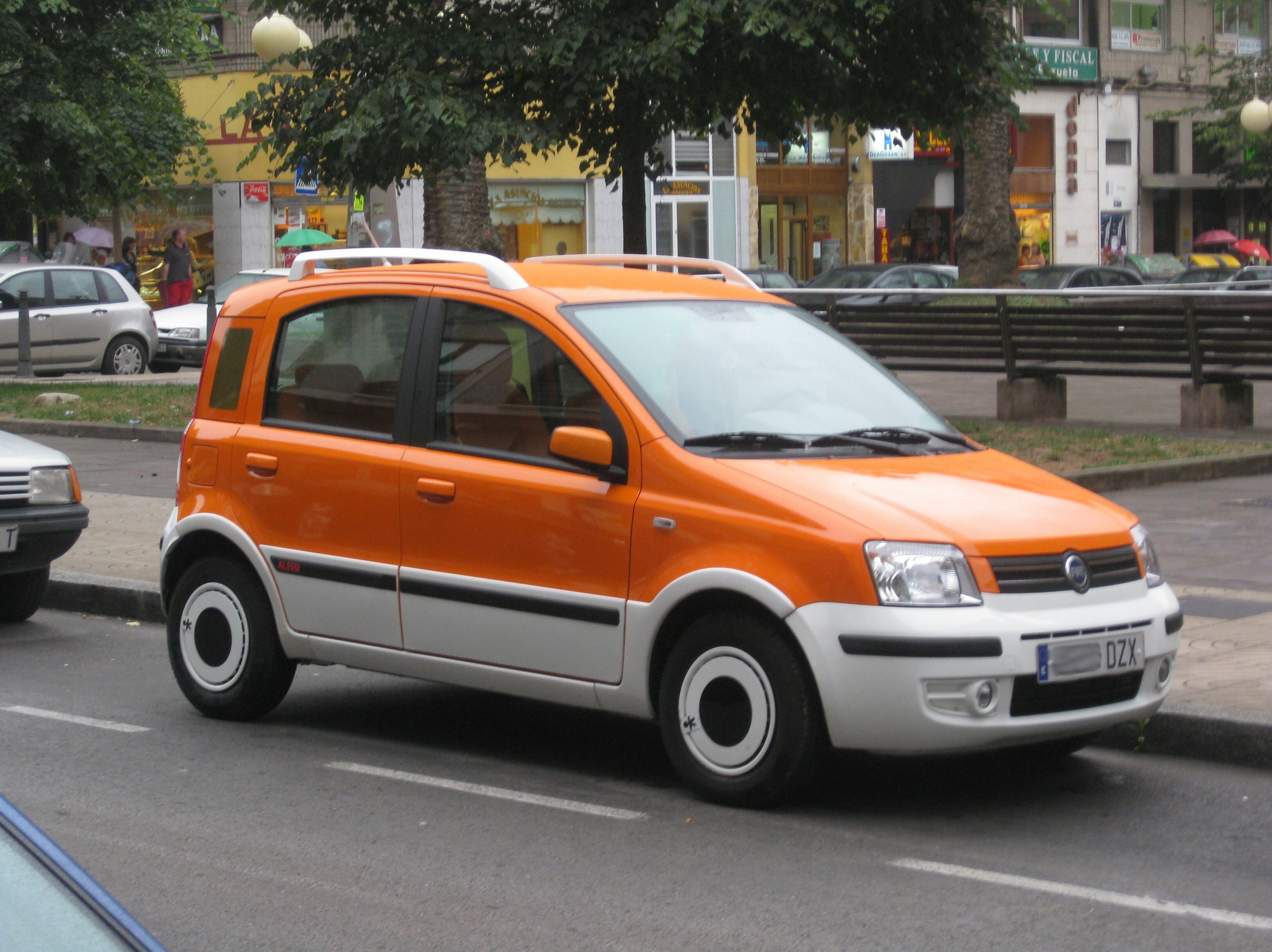 Very nice and funny looking edition of the Fiat Panda, not sure for how long was it sold nor what color combinations could it have, it looks quite futuristic with this look :D